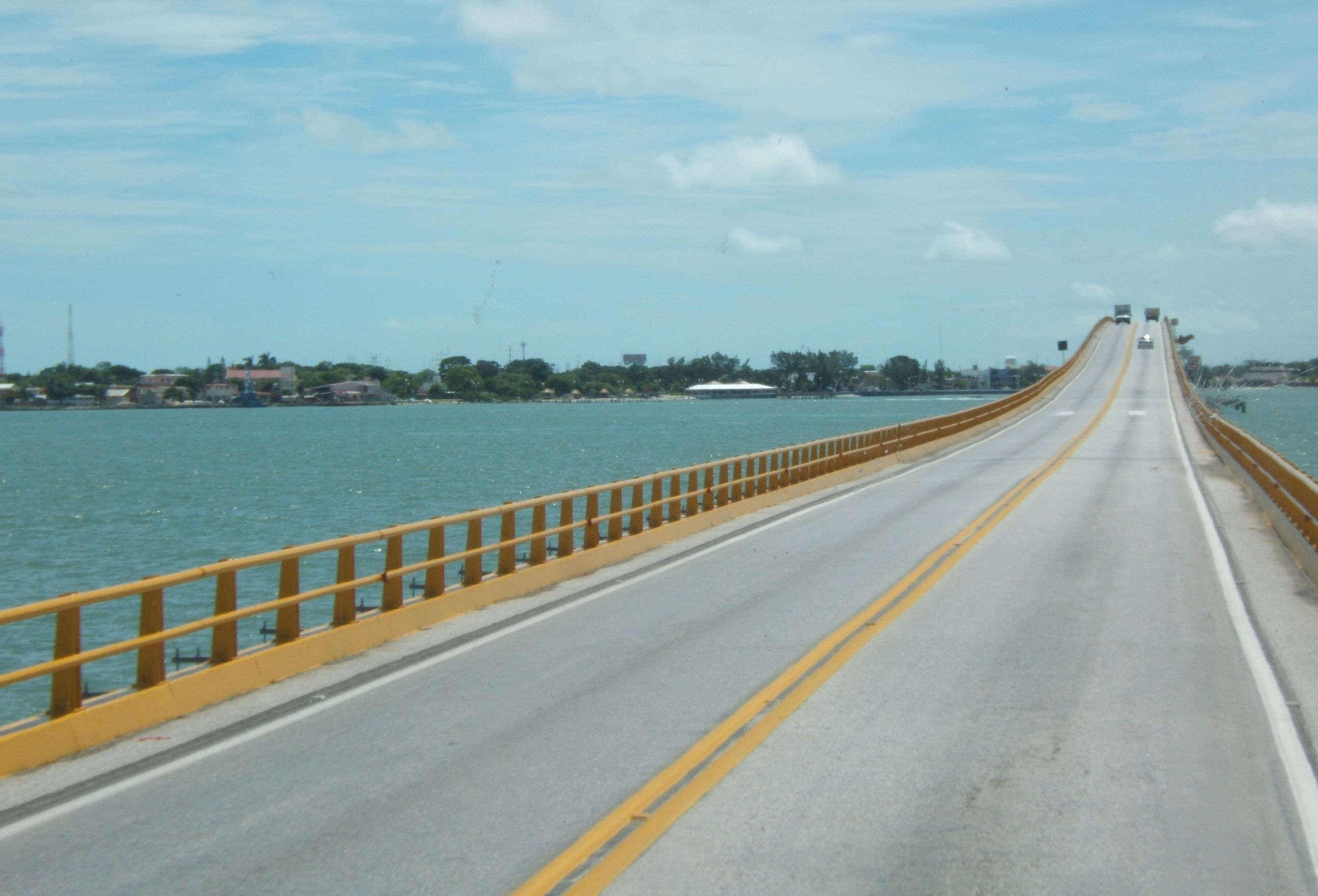 Photo taken by Ashig84 in June of 2006.